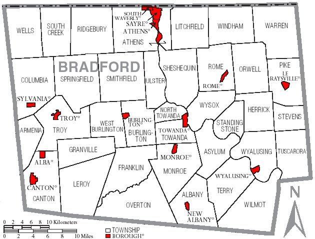 Map of Bradford County, Pennsylvania, USA with township and municipal bondaries.